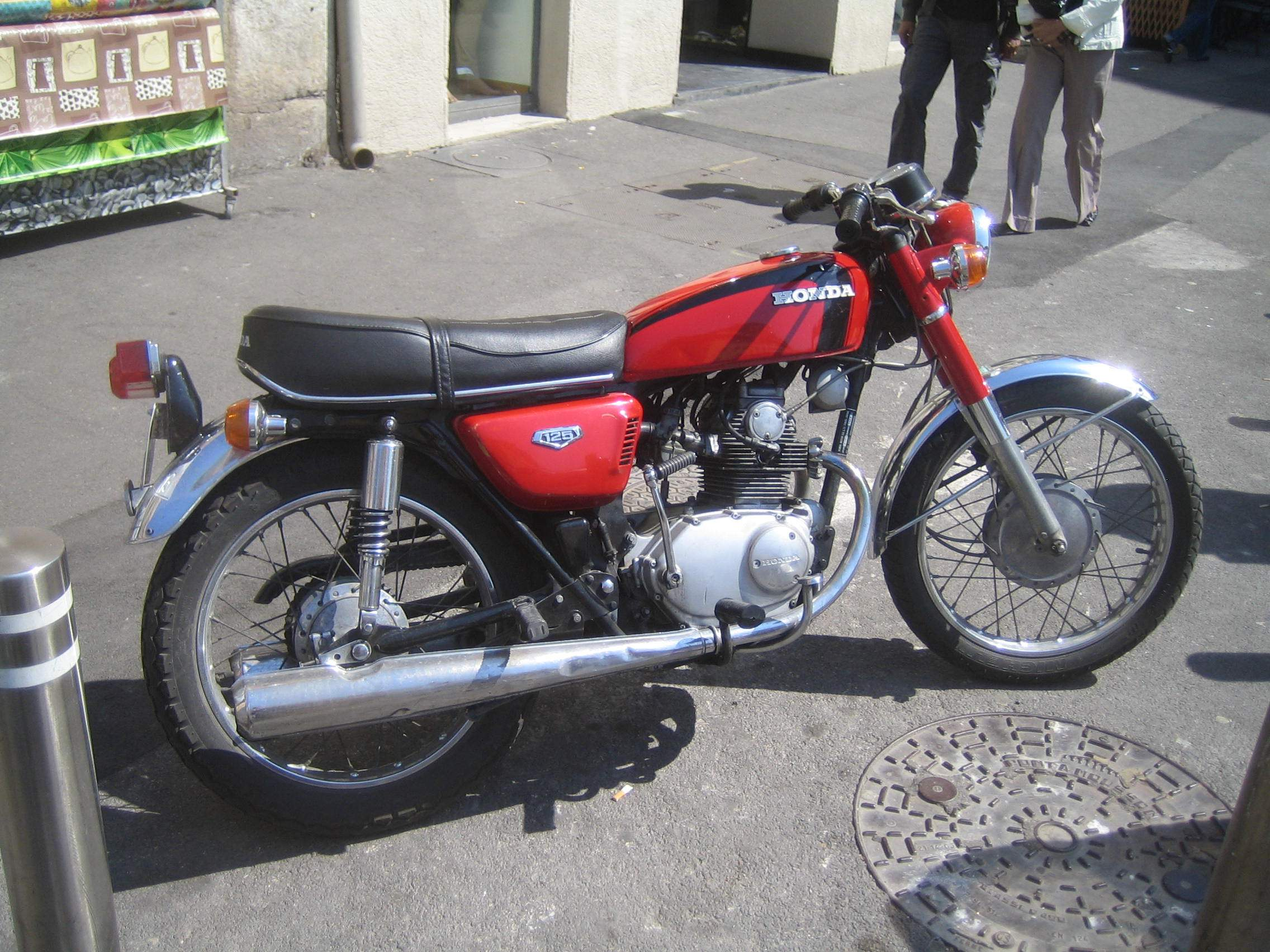 HONDA CB125K in Marseilles